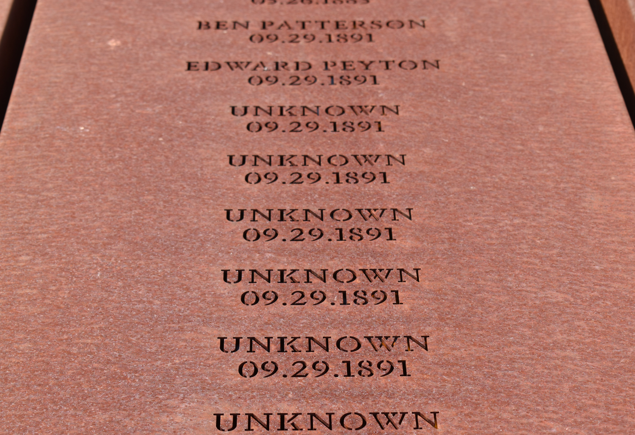 Corten steel monument at the EJI’s National Memorial for Peace and Justice memorializing the Black individuals lynched during the 1891 cotton pickers lynching in Lee County, Arkansas.